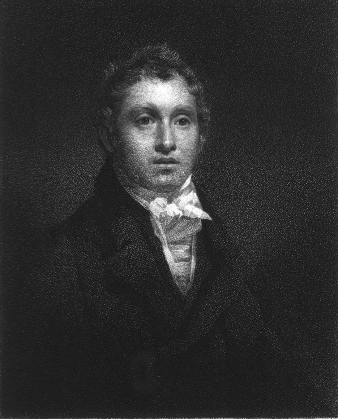 David Brewster, British physicist, mathematician, scientist, inventor and writer.